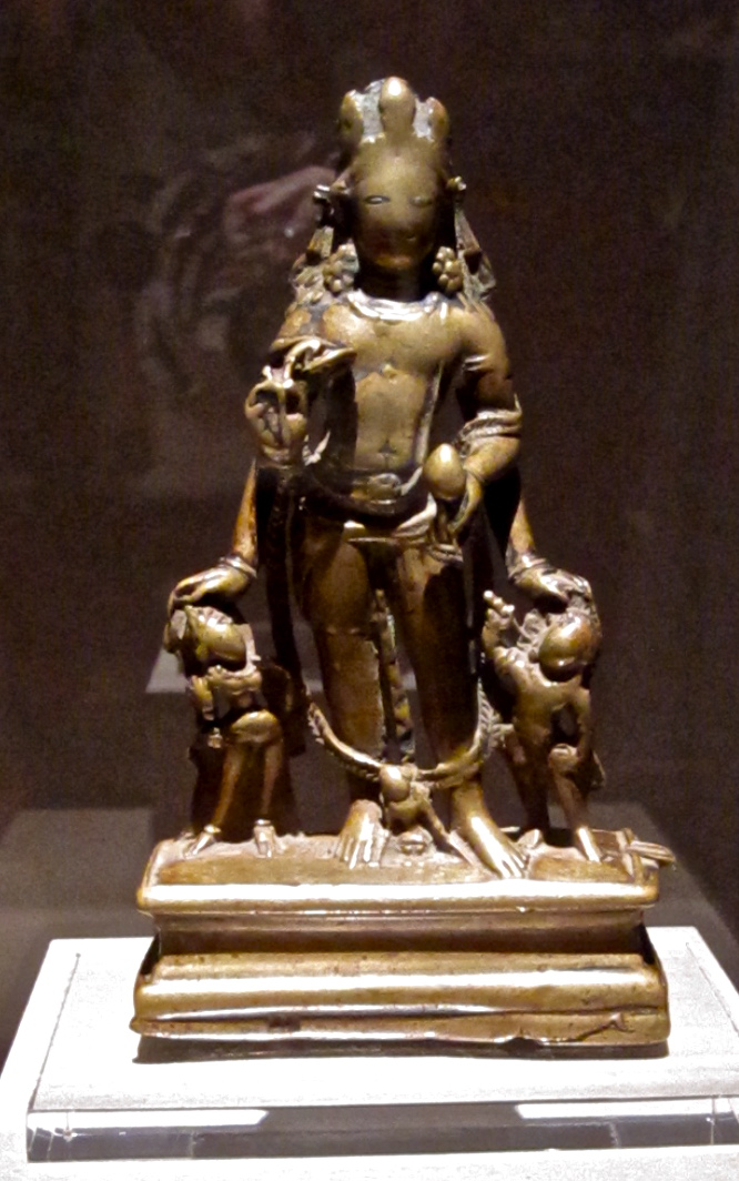 India, Jammu and Kashmir 9th century Bronze with silver inlay